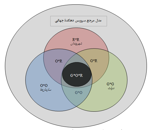 GVSRM